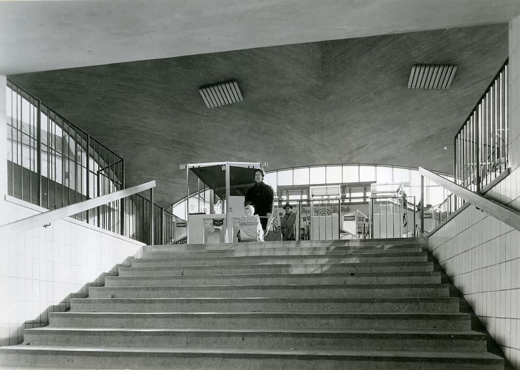 Kvinna med barnvagn i trappan i Blackebergs tunnelbanestation Photograph by: unknown Photo Nr: 2118-8